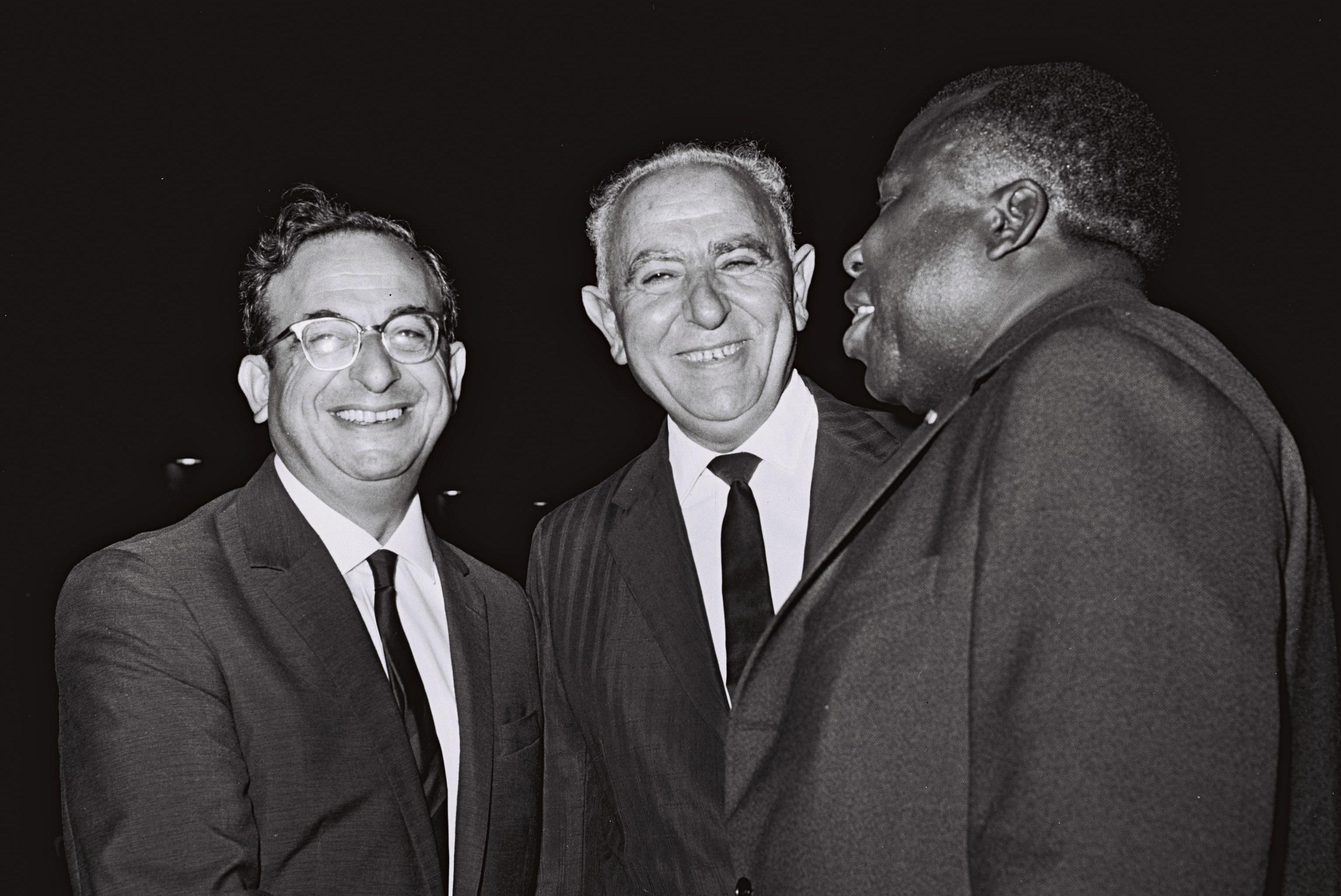 Pres. of the Congo senate Sylvestre Mudingayi shaking hands with dep. Knesset speaker Yitzhak Navon after arriving at Lod, for inauguration of new Knesset building.